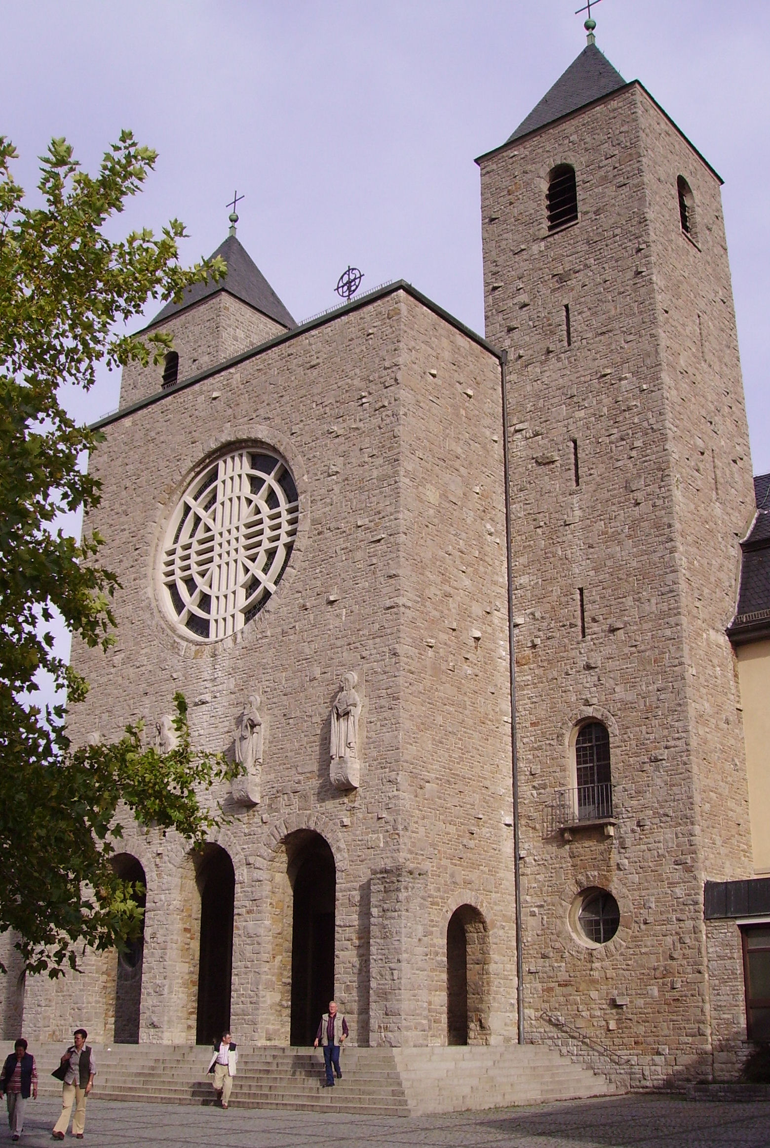 abbey church of Münsterschwarzach, Germany